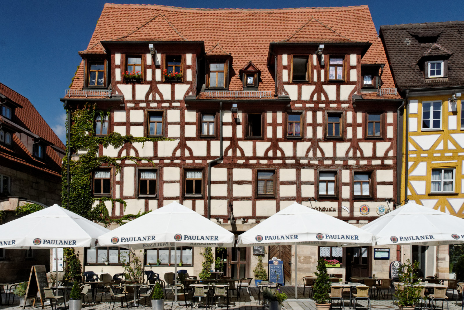 House Marktplatz 7/9 in Fürth, Germany